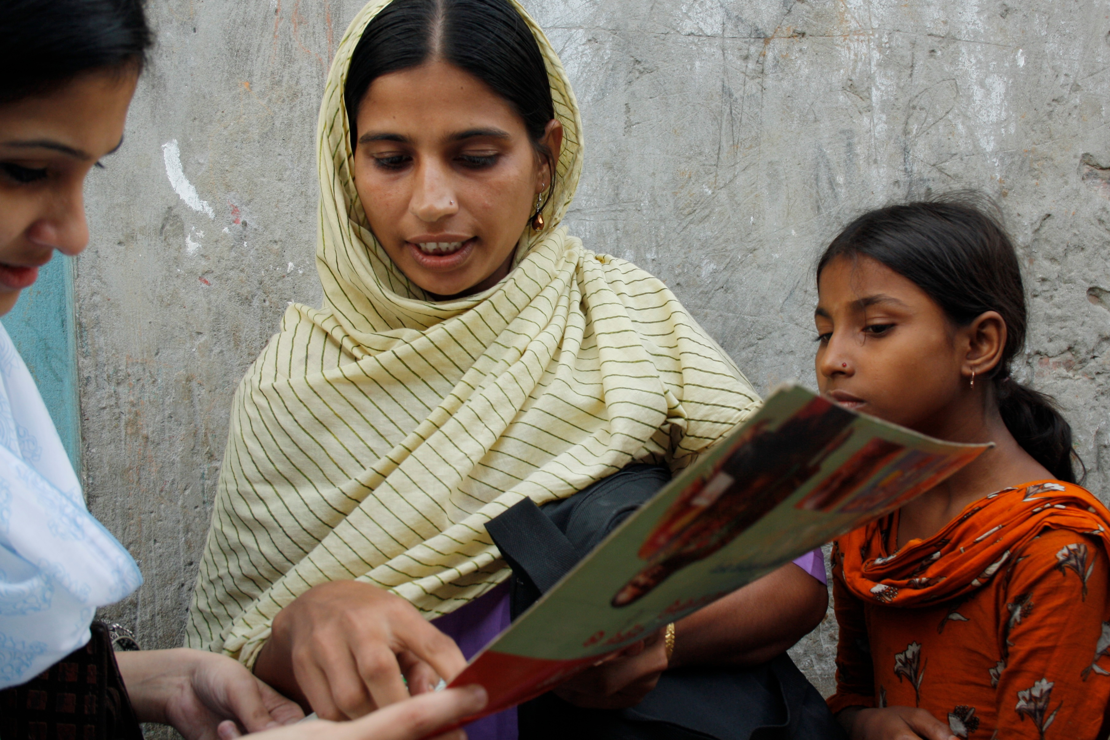 Community health worker Parvin is 26 and lives in the Korail slum in Dhaka. She has two children, aged five and nine. She volunteered to be a health worker on a Gated Foundation-supported community health project run by the Bangladeshi NGO BRAC. She is responsible for 2000 households and calls door to door to identify women who are pregnant. She refers them to the paid community health worker who can confirm the pregnancy and provide basic medical advice and help. She does get a token amount of money to take the mother to the delivery centre to give birth. Community health workers are selected from the community and local area and are known as shasthya shebikas. They accompany pregnant women to the birthing hut and participate in the birth event. They are the front line workers each covering 2000 households. Two birthing attendants work in a birthing hut which covers 2000 households. Korail slum is one of the largest slums in Bangladesh and most of its residents come from poorest parts of the country such as Jamalpur and Kishorganj. It covers about 100 acres and is home to around 30,000 people. Most of its inhabitants live below the poverty line.